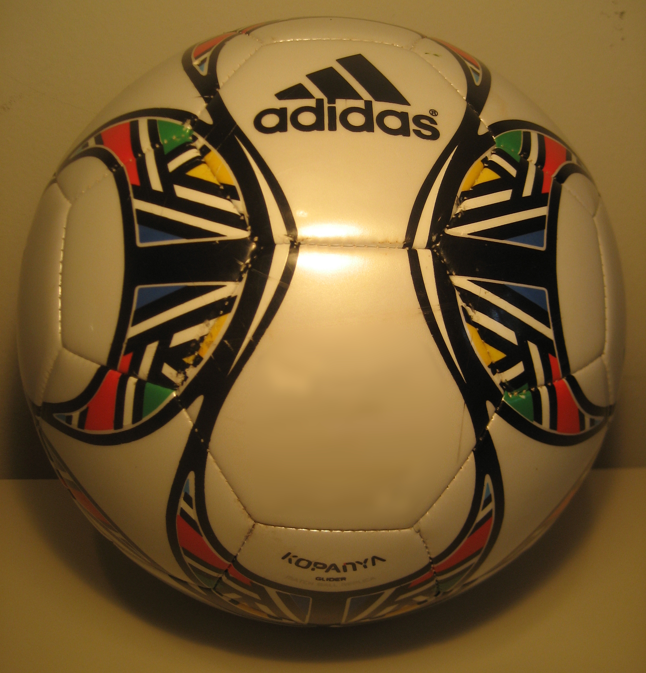 The official match ball Kopanya created by adidas for the 2009 FIFA Confederations Cup in South Africa.